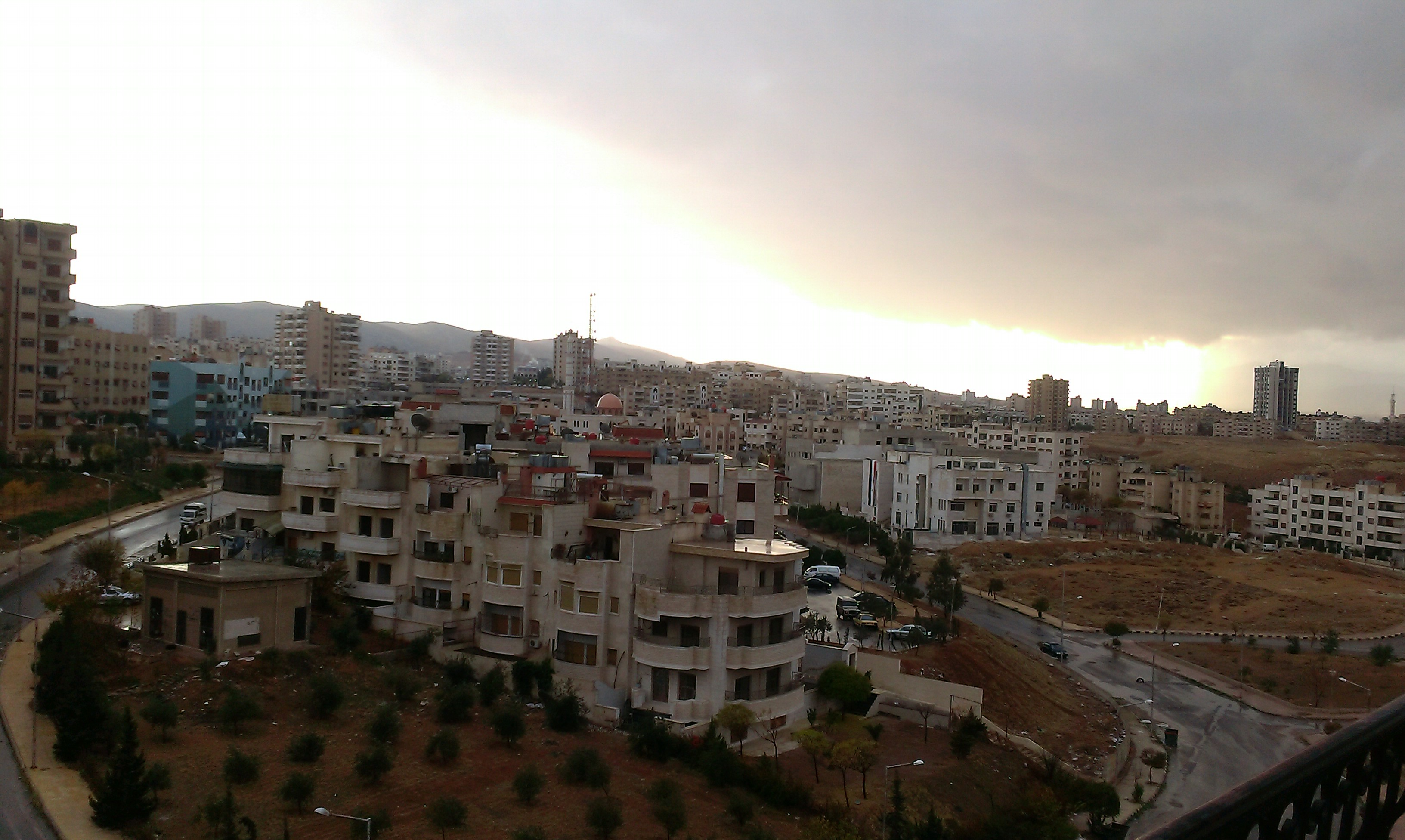 QUDSSAYA SUBURB IS A CITY SOUTH OF DAMASCUS, SYRIA